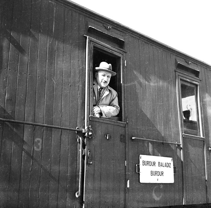 Ali Saim Ülgen on the Burdur train (date unknown) SALT Research, Ali Saim Ülgen Archive Ali Saim Ülgen Burdur treninde (tarihi bilinmiyor) SALT Araştırma, Ali Saim Ülgen Arşivi